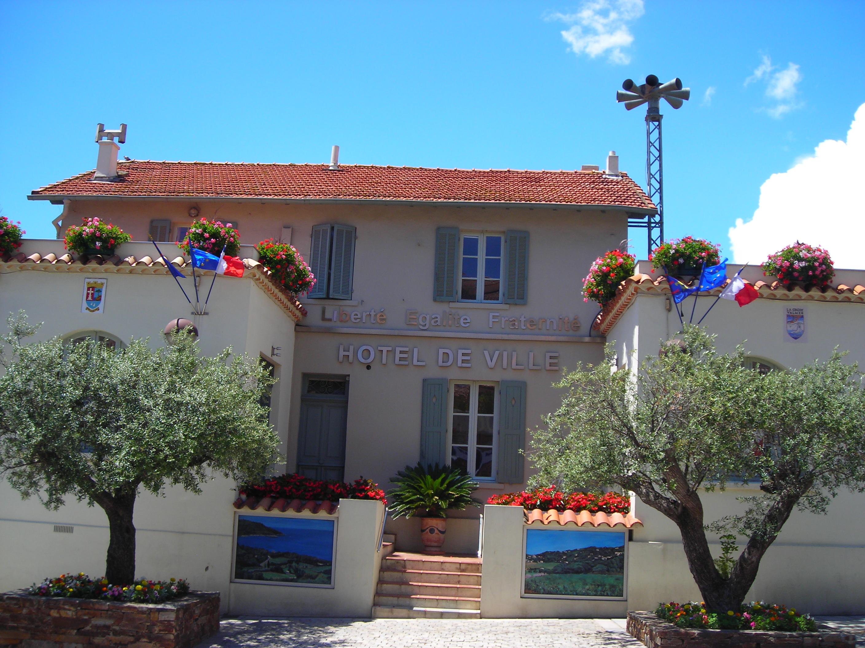 City hall of La Croix-Valmer in France